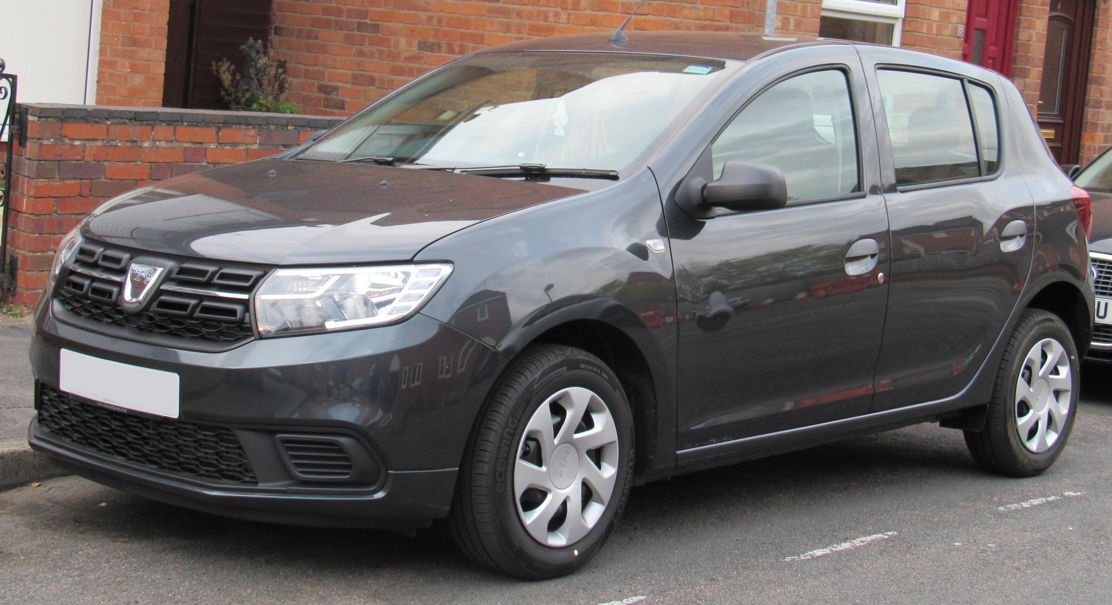 2017 Dacia Sandero Ambiance SCE facelift 1.0 Front Taken in Warwick